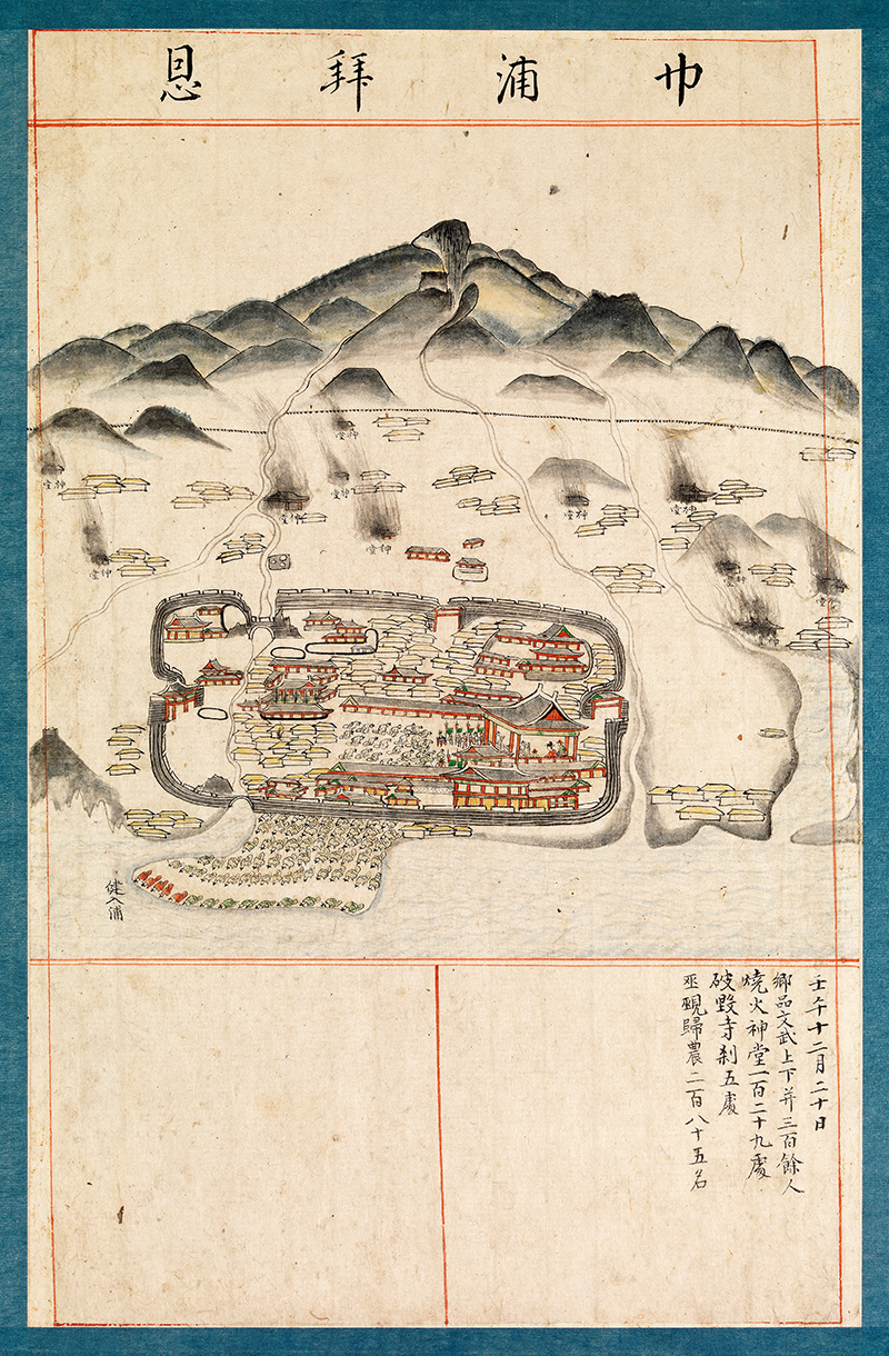 Yi Hyeong-sang, magistrate of Jeju, destroying shamanic temples in Jeju